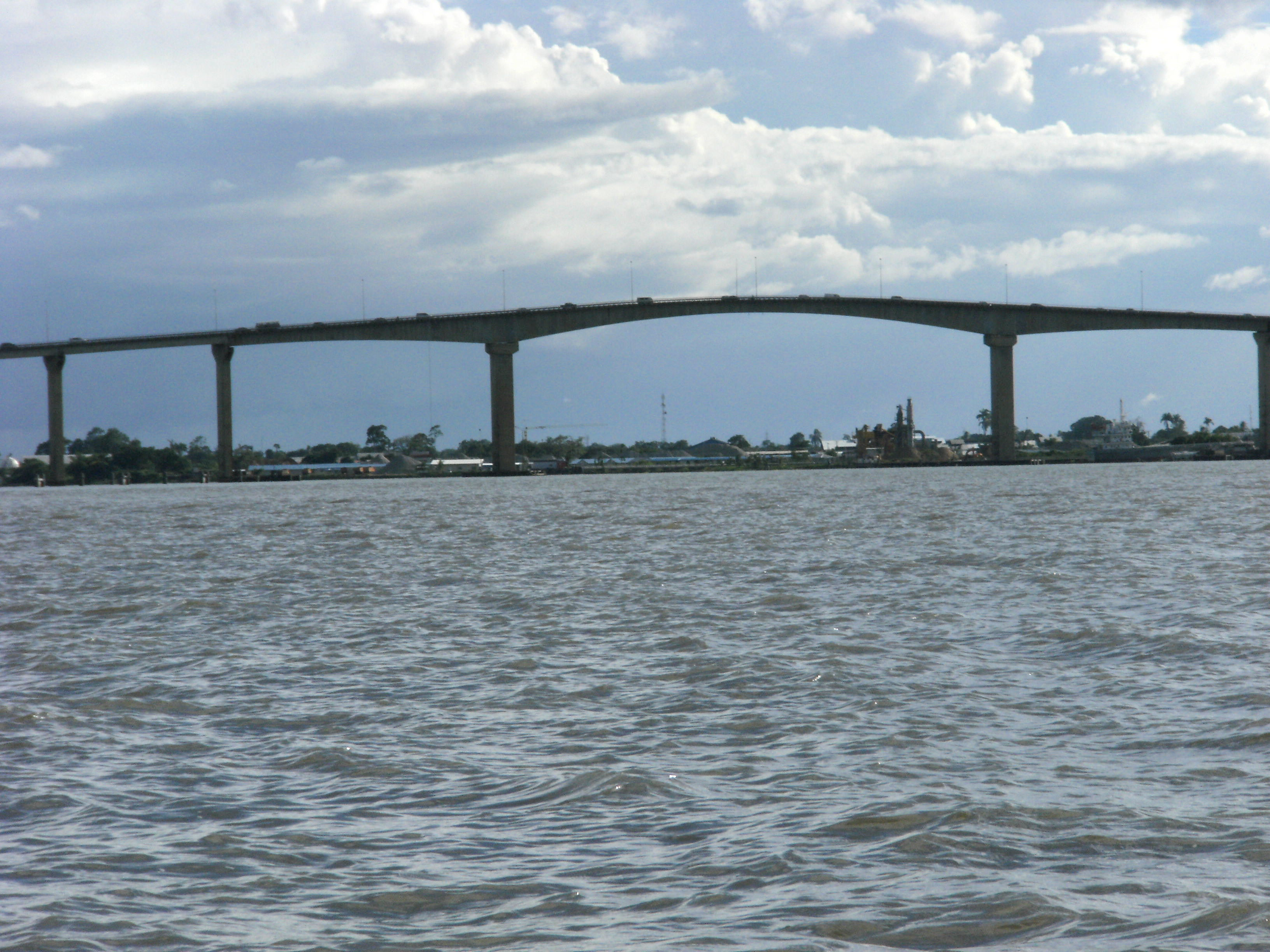 Jules Wijdenbosch Bridge.